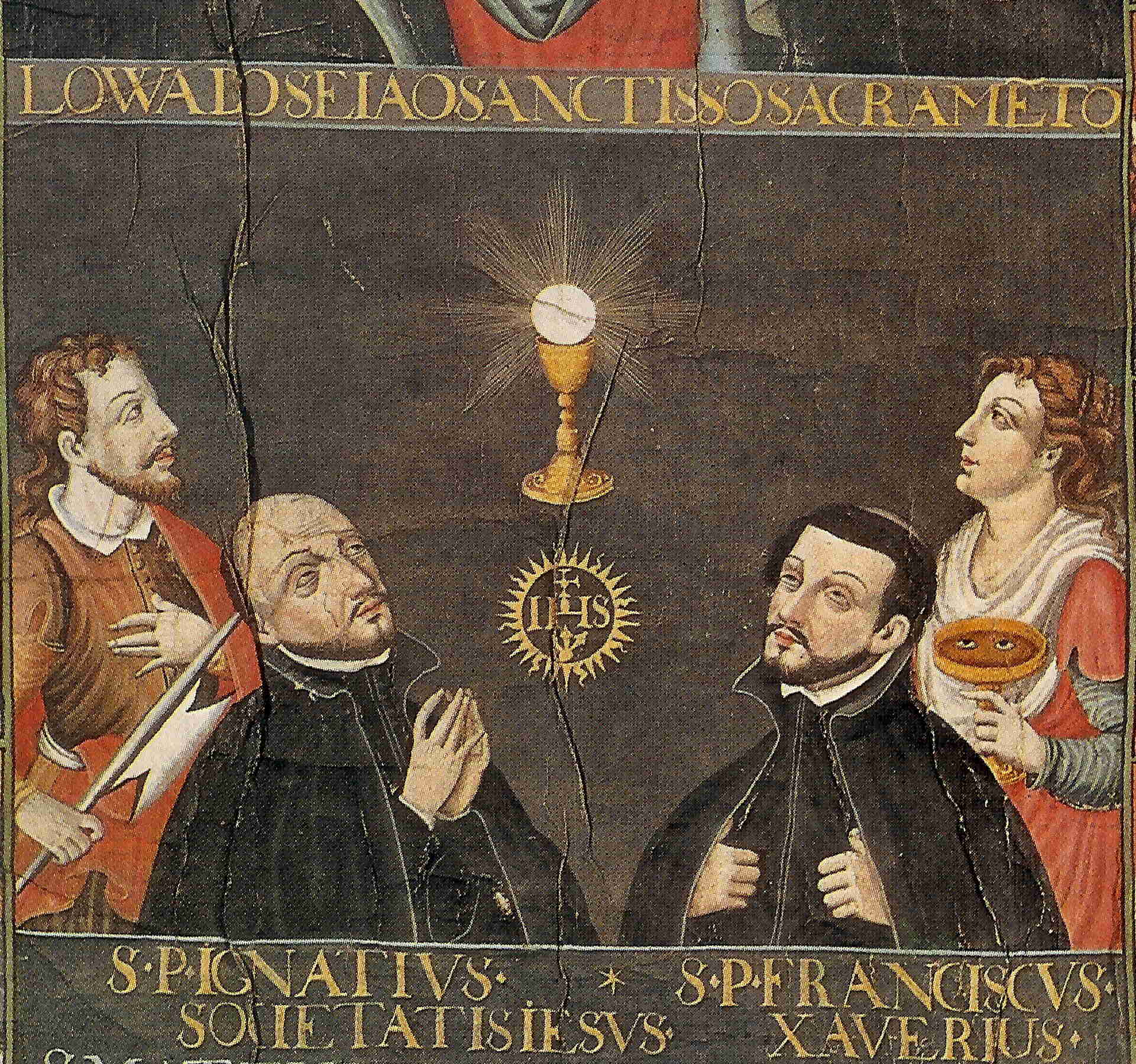 Painting Namban Art: Rosary mystery (detail)